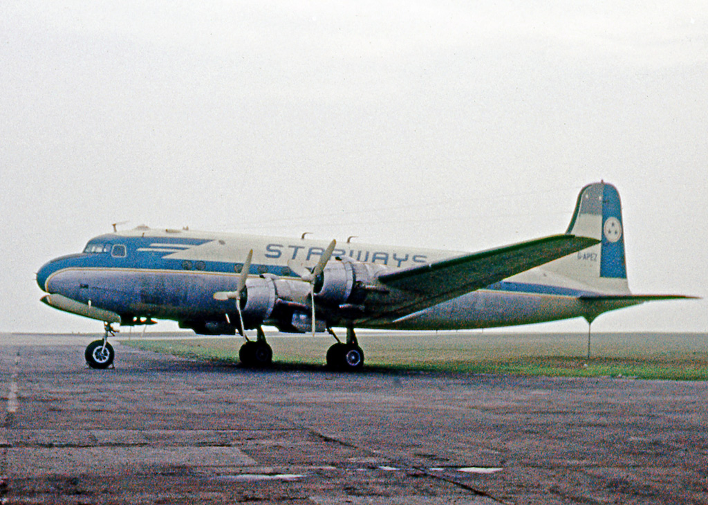 Douglas DC-4 G-APEZ of Starways Ltd at Liverpool Speke Airport in 1964